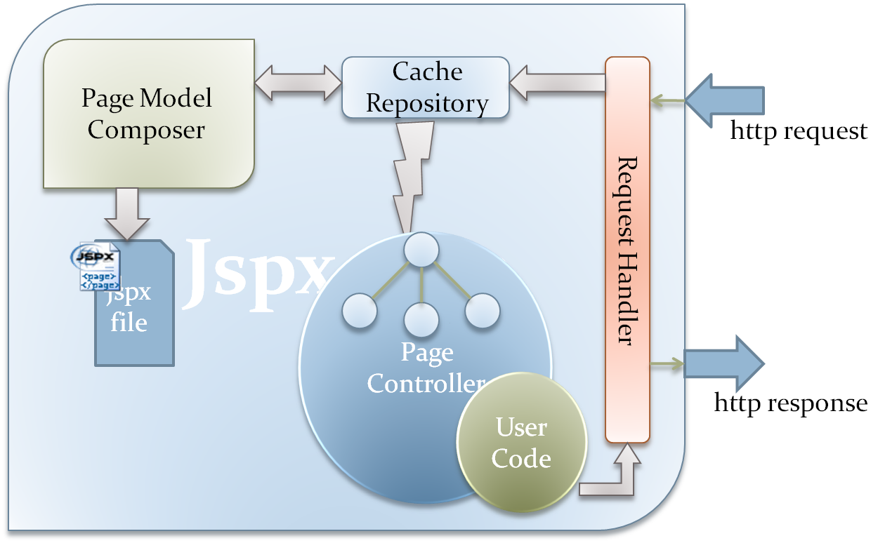 The main components of Jspx Core, showing the flow of an http request resulting in http response.